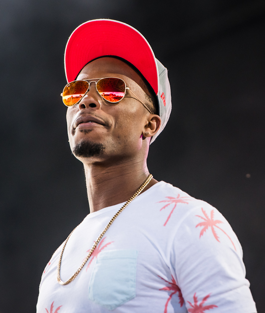 Rapper B.o.B in 2013